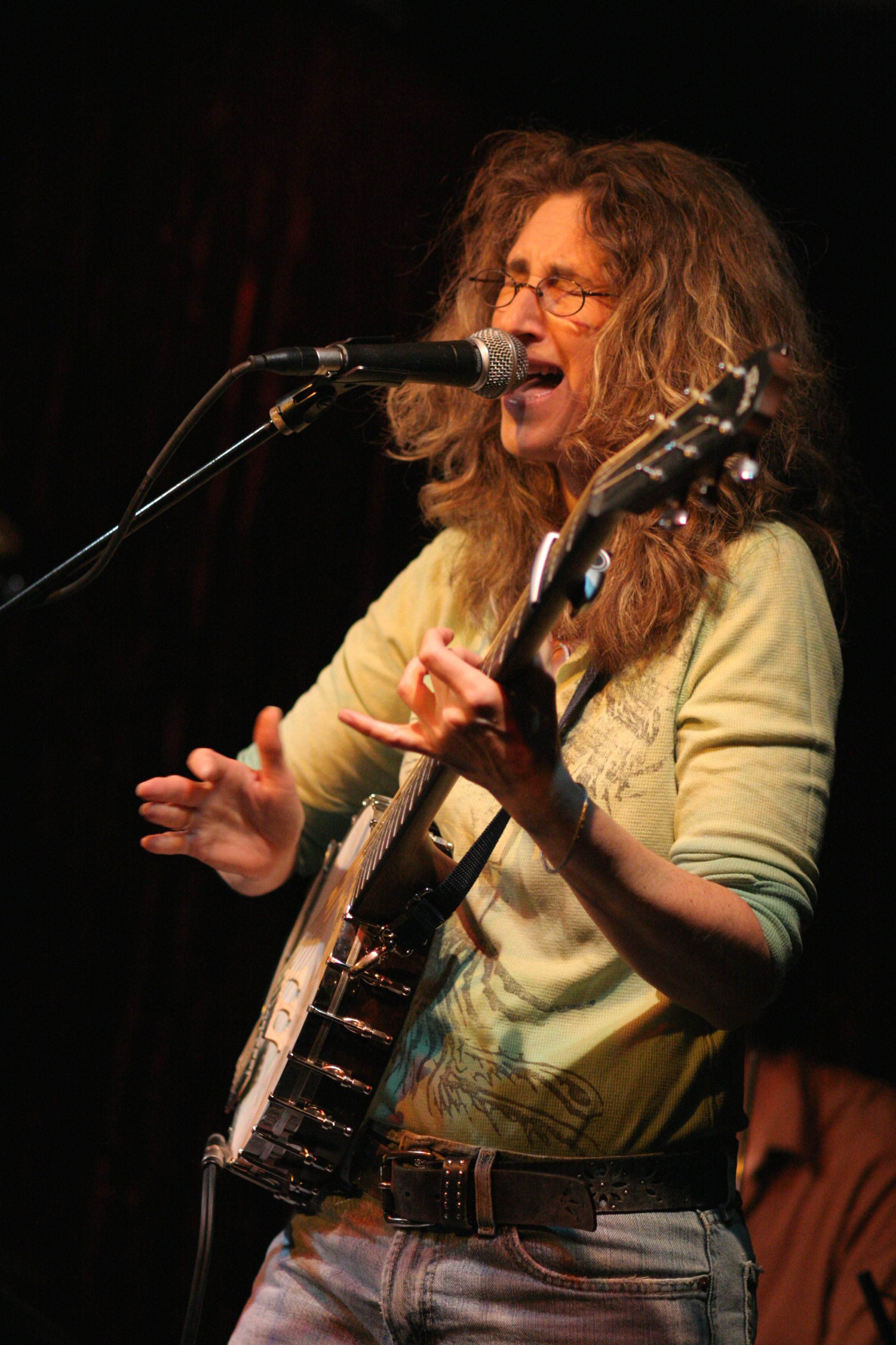 Vicki Genfan performing on the banjo in 2007 Photo: Claire Stefani